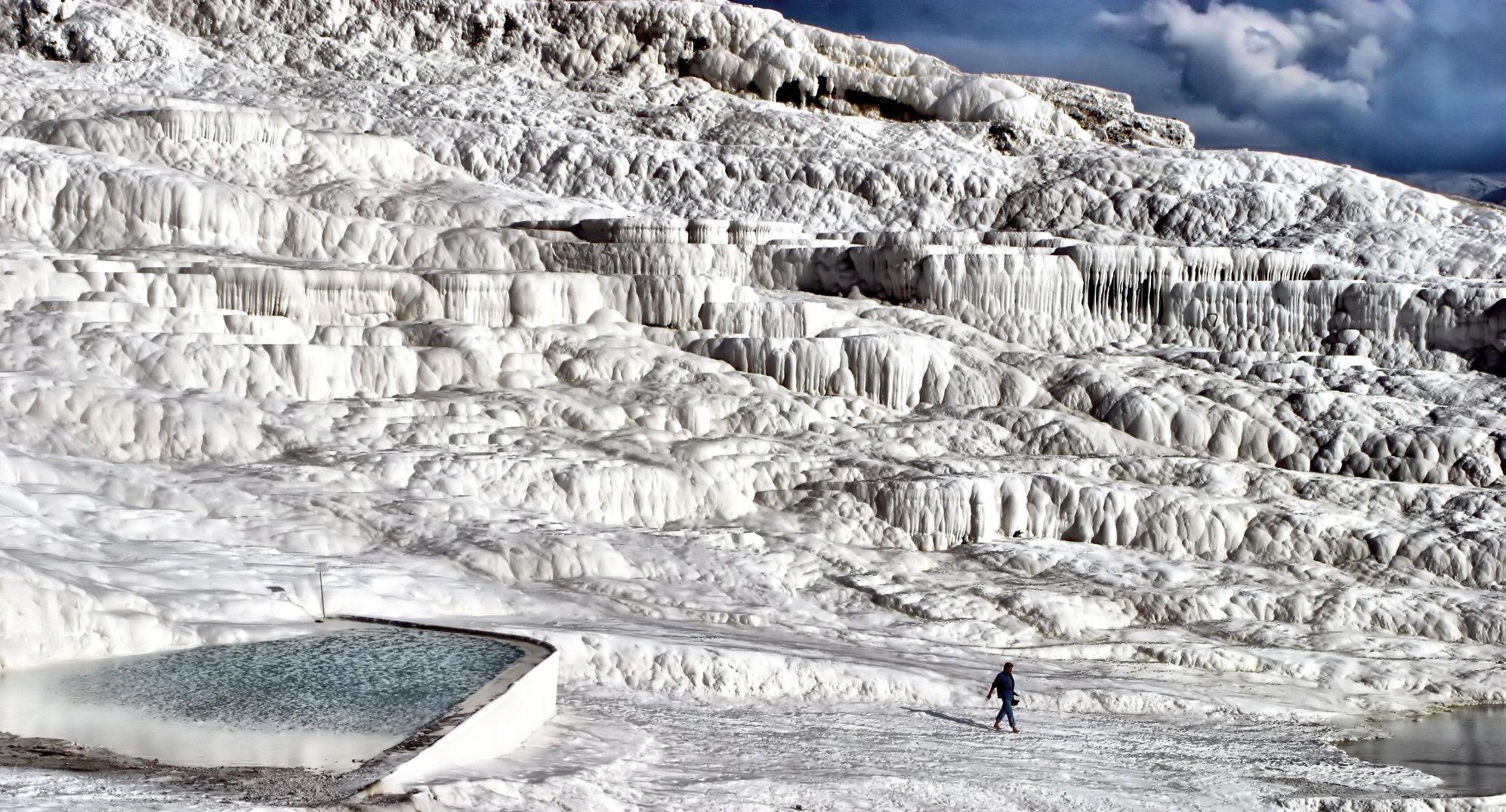 A hanging limestone walls and hot springs at Pamukkale